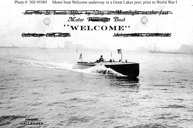 The motorboat Welcome prior to her service as the United States Navy patrol vessel . This card advertises her for hire as a sightseeing boat on the Saint Louis River.